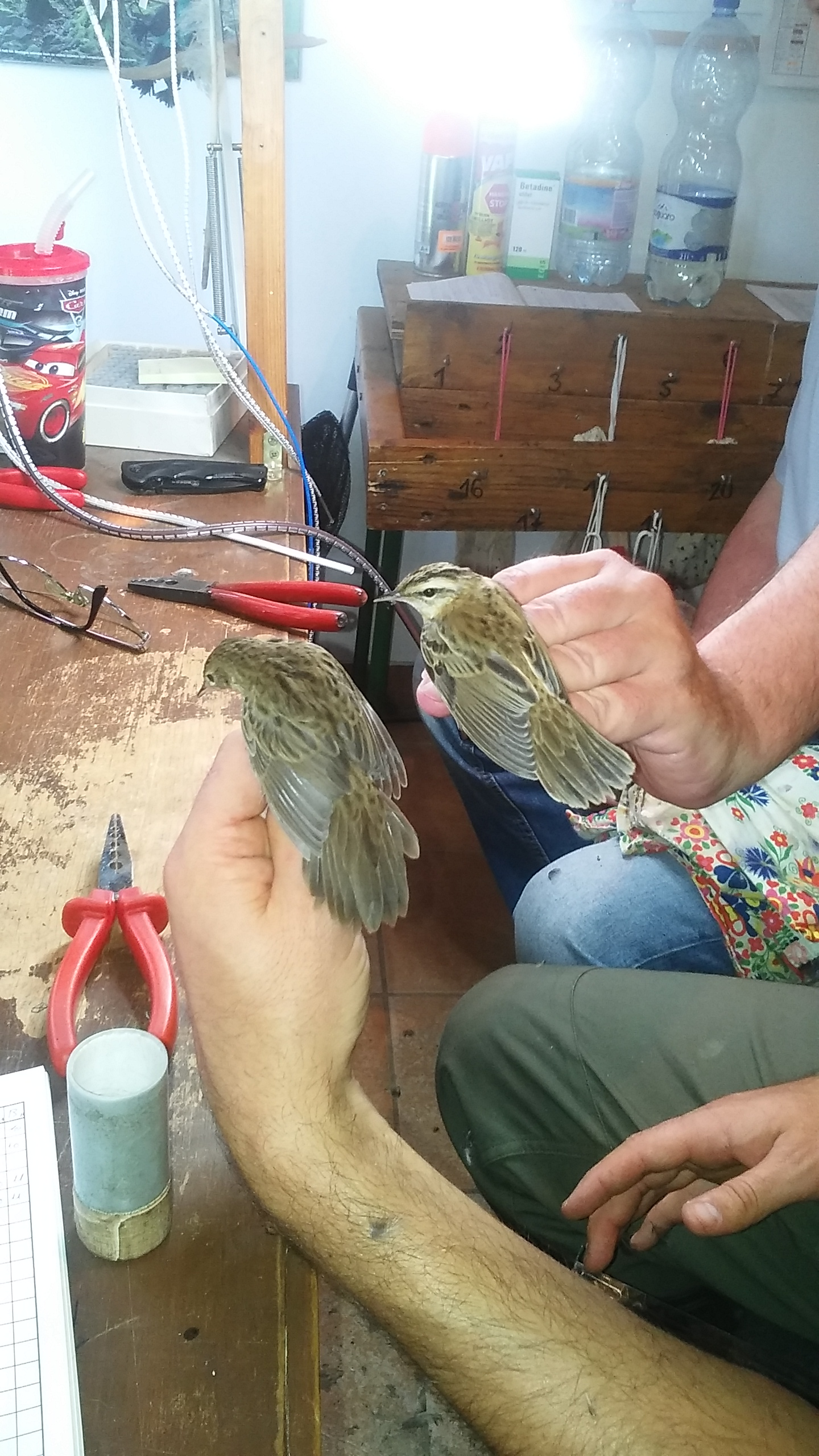 Gyűrűzött réti tücsökmadár és foltos nádiposzáta összehasonlítása az Ócsai Madárvártán